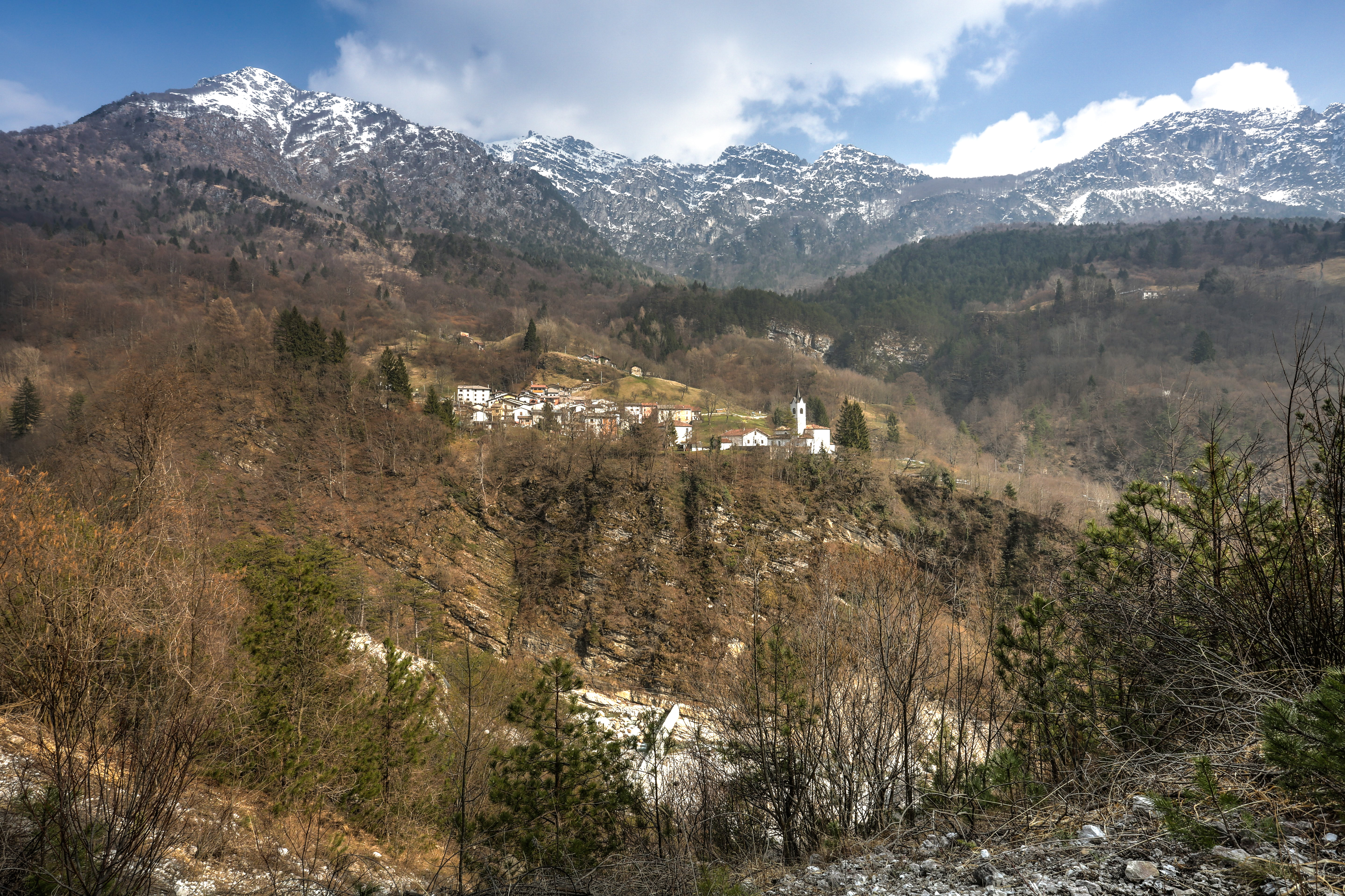 Dordolla and Drentus in the Val d'Aupa in the Carnic Alps, community Moggio Udinese / Friuli-Venezia Giulia / Italy / EU. View towards the east seen from Case Fassoz.